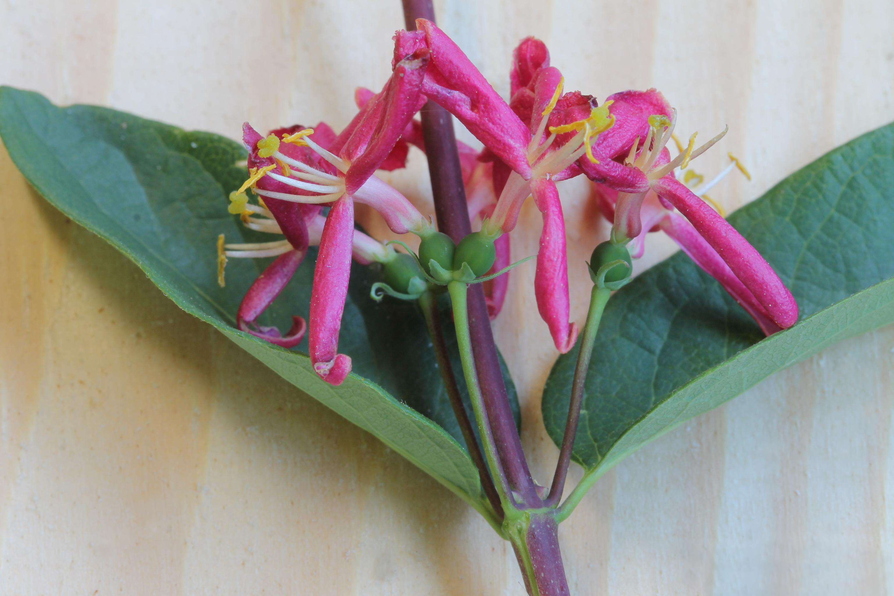 Tatarian honeysuckle - Lonicera tatarica L.